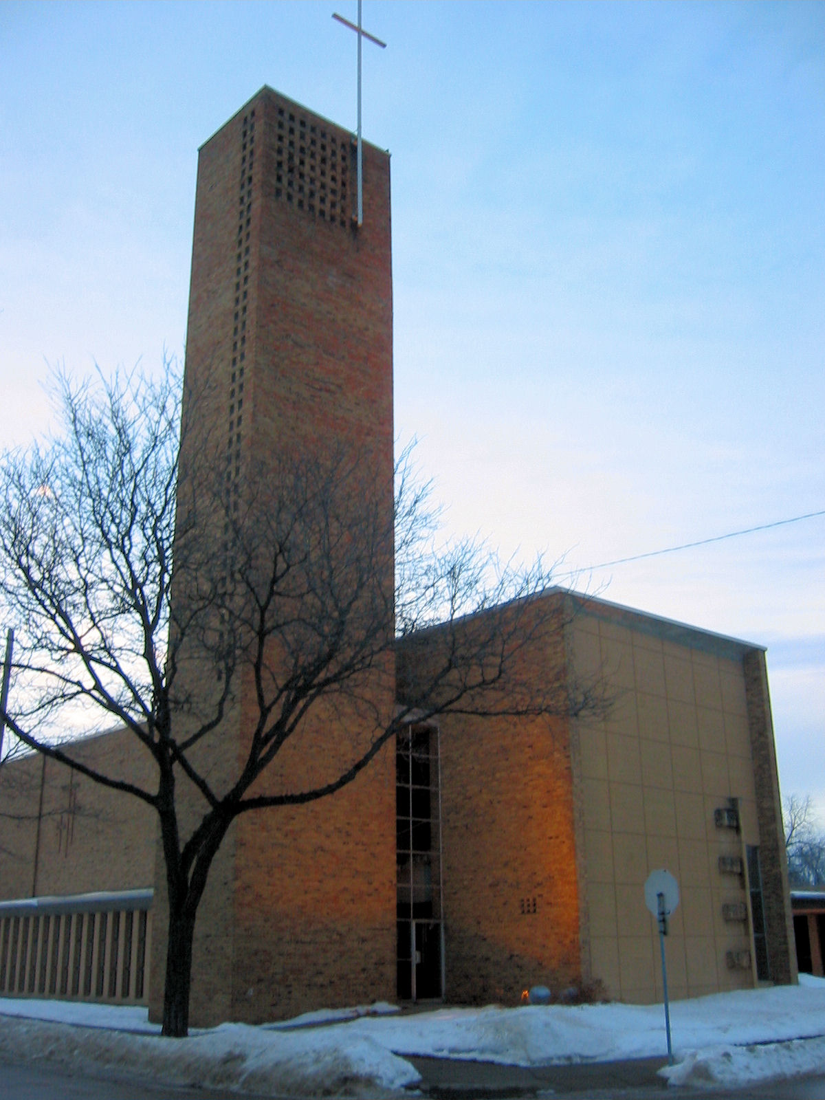 Christ Church Lutheran (Minneapolis), designed by Eliel Saarinen.